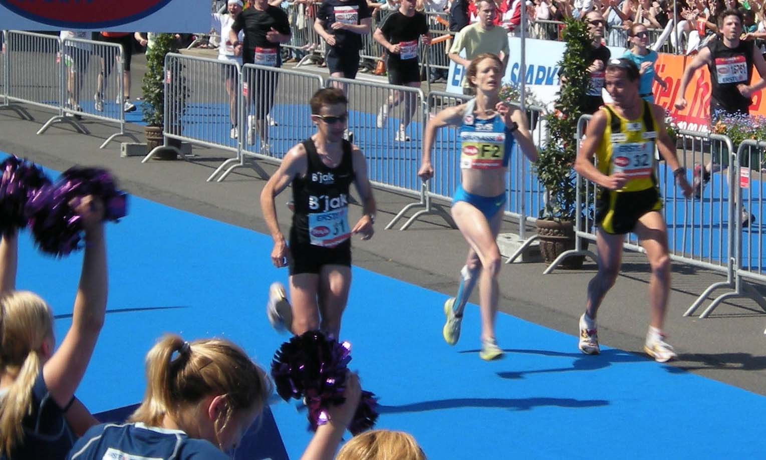 Vienna City Marathon 2009; on details, see filename or official Note: Camera time is set on UTC, which is local time -2, and might be wrong ~ +/-1_min.